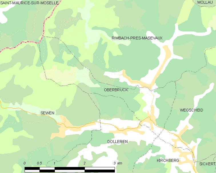 Map of French municipality